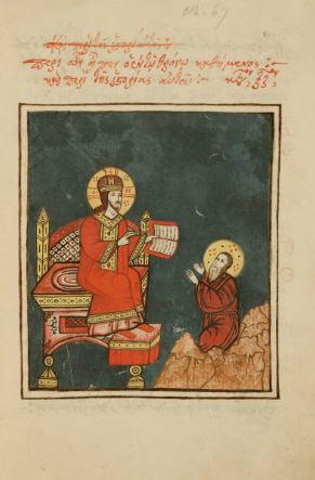 The Elizabeth Day McCormick Apocalypse (Goodspeed Manuscript Collection, gms-0931-22) in Chicago, illustrates 69 subjects of an early 17th-century translation of the Apocalypse into vernacular Greek.